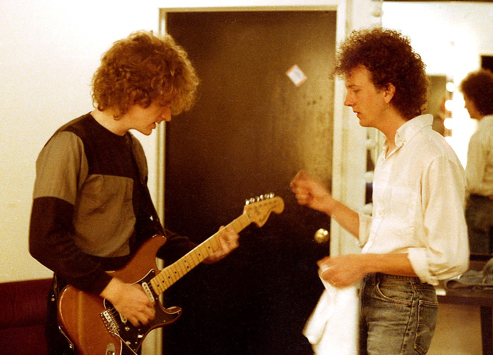 Scott Miller and Gil Ray of Game Theory, prior to opening for The Three O'Clock, Berkeley, California, 1985.